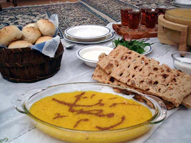 Sholezard (with calligraphy of "Ramadan"), Sangak bread (the Iranian traditional bread) and some other breads and some glasses of tea for Iftar.